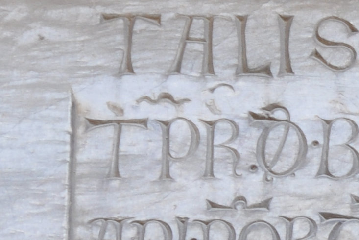 Inscription on the lintel of S. Girolamo's church in Lucca (IT). Detail: upper left corner of the dug out area that contains the last three lines of text.